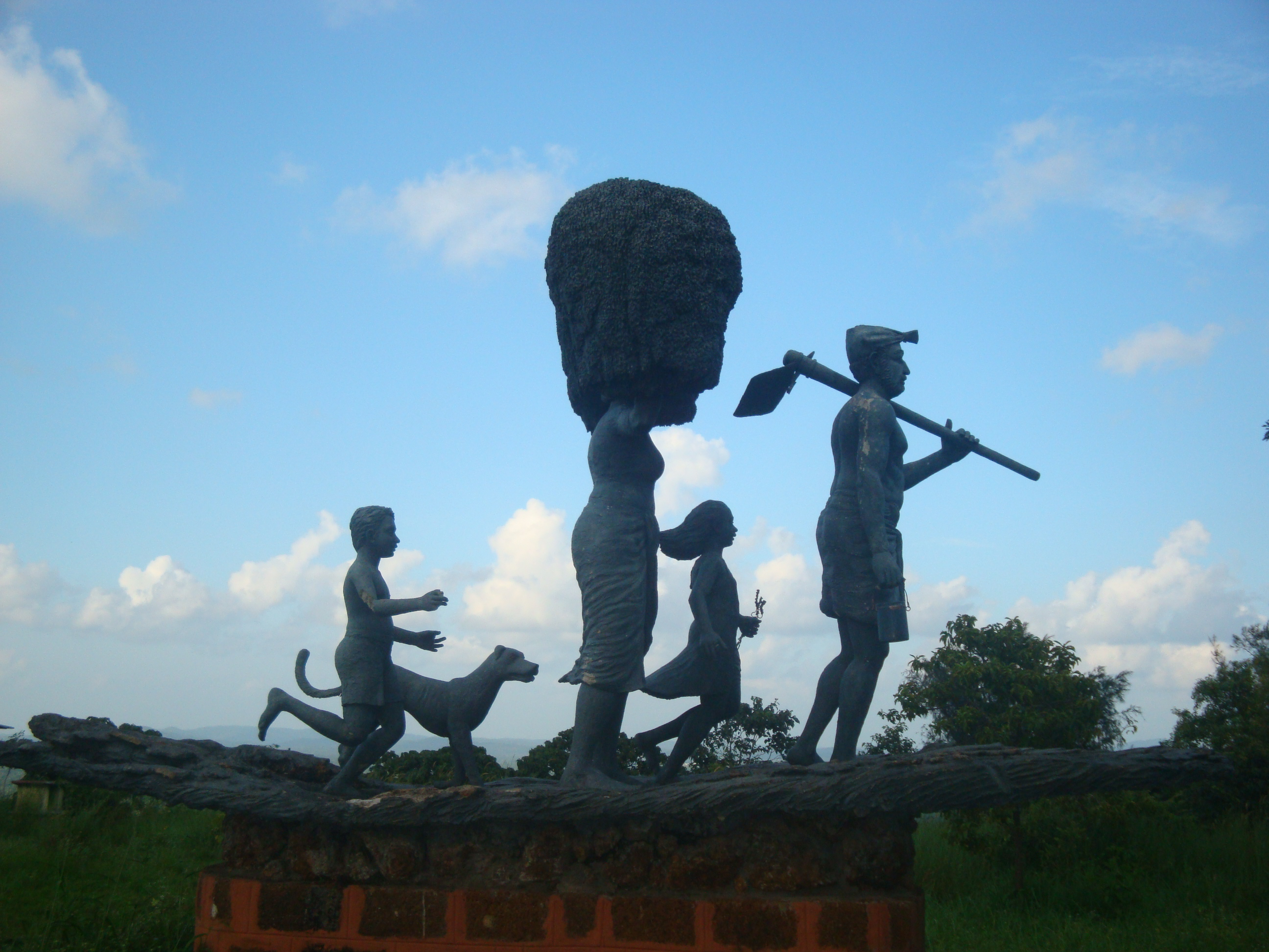 A Scene from Vilangan Kunnu, Amala, Thrissur